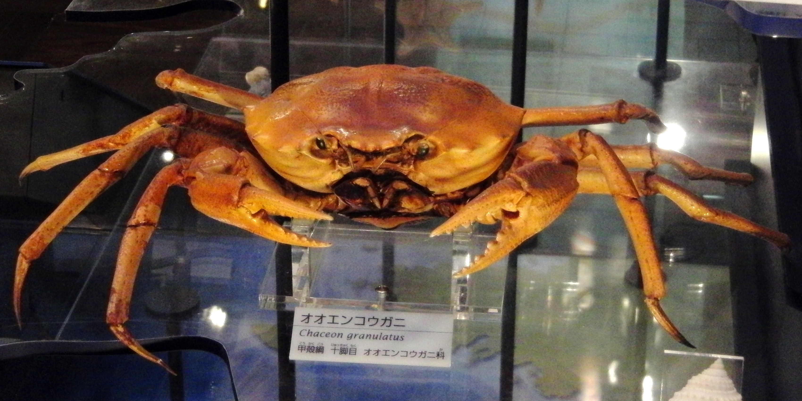 Stuffed specimen of Chaceon granulatus. Exhibit in the National Museum of Nature and Science, Tokyo, Japan.